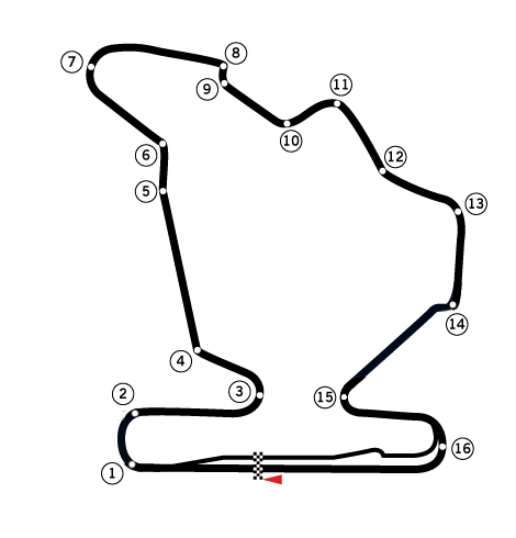 Hungaroring older layout